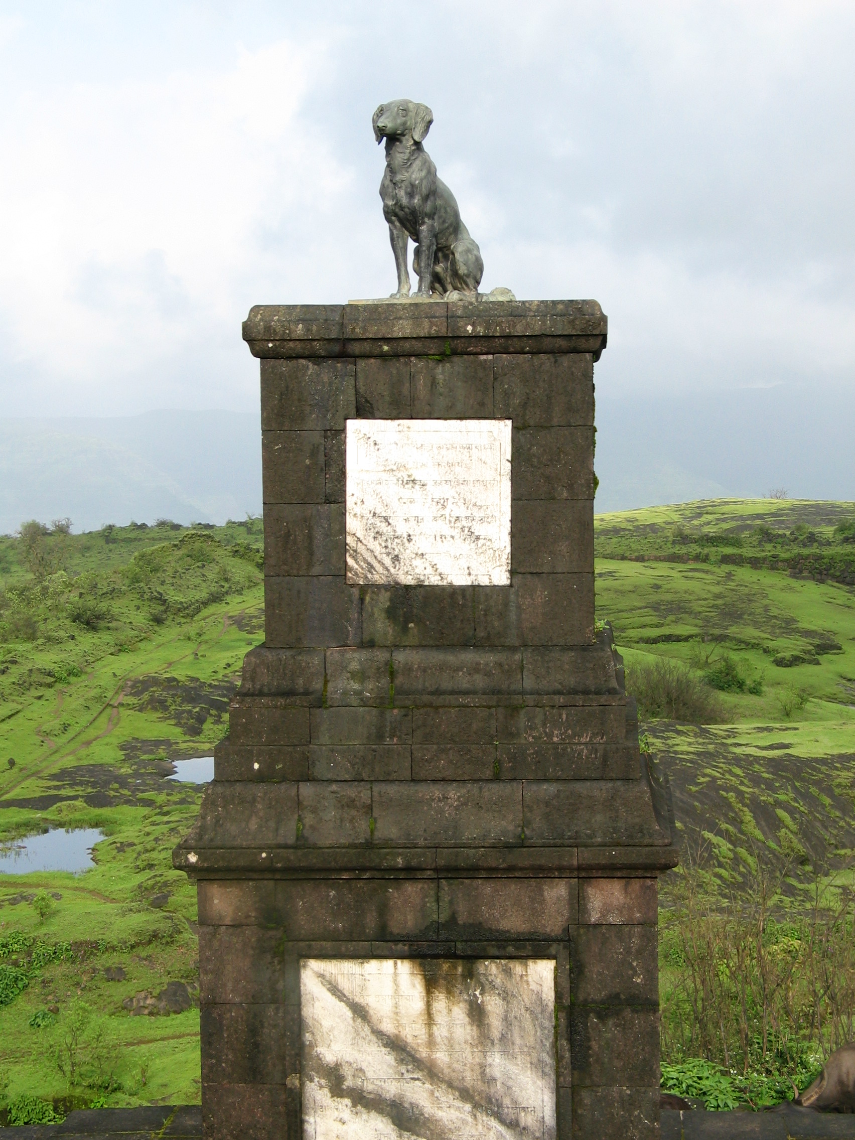 Photo of Shivaji's Raigad Fort